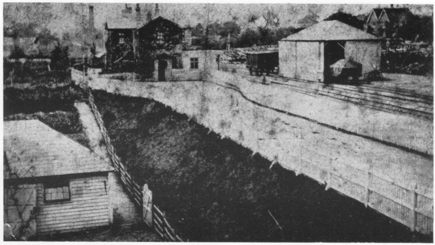 First East Grinstead railway station, West Sussex